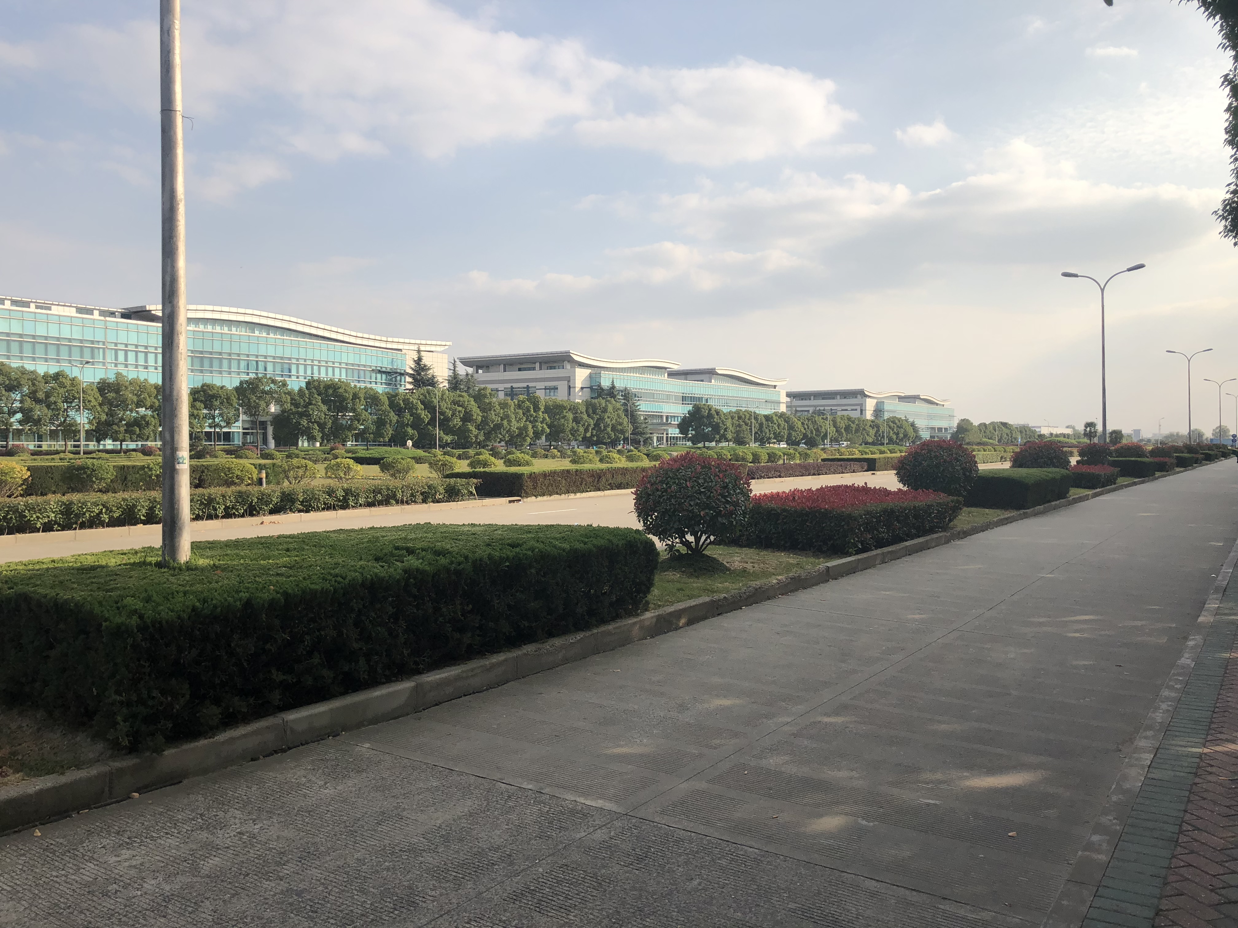 Quanta Shanghai Manufacturing City (QSMC), looking at F2, F4, F6